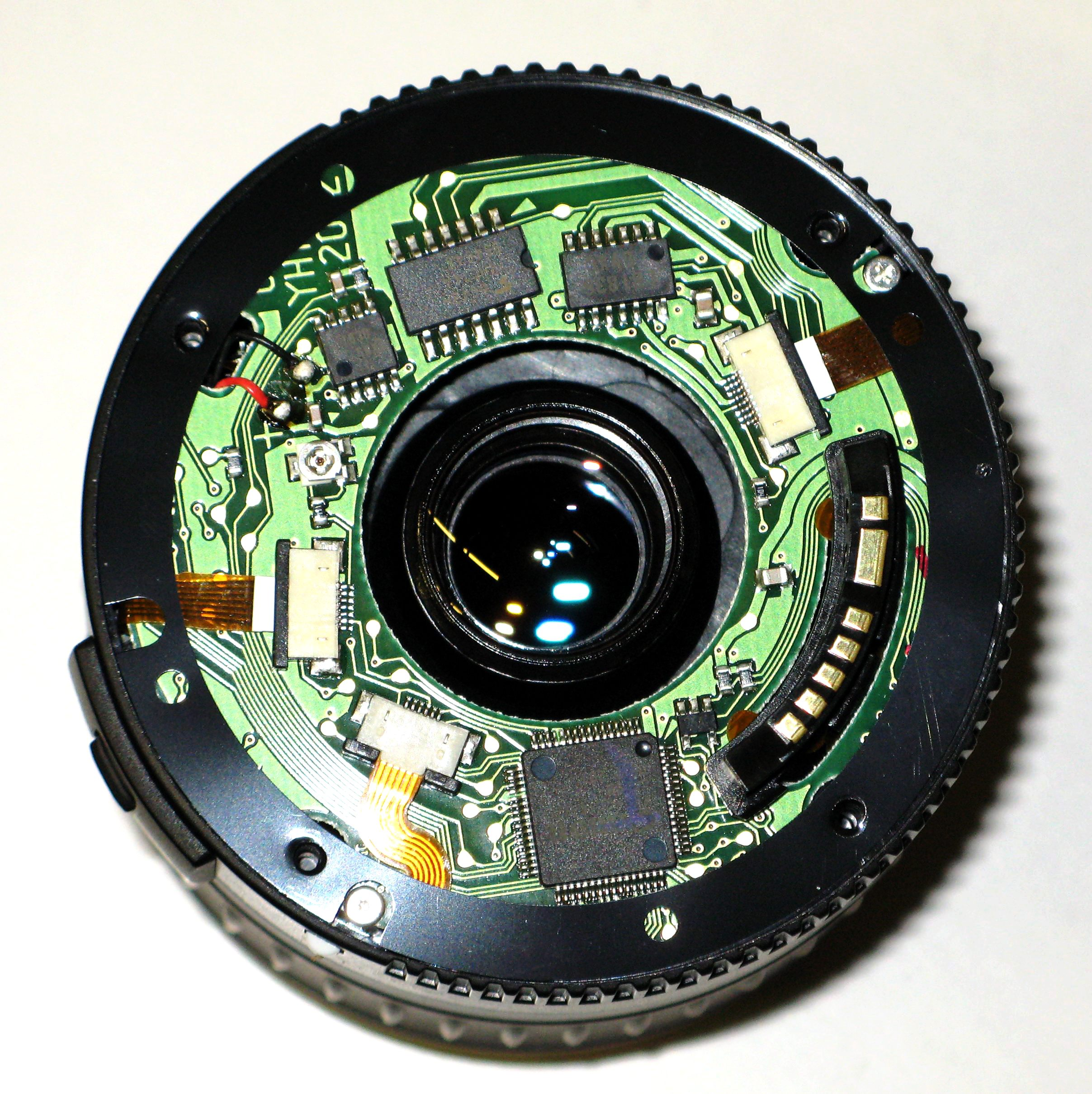 Inside of an 18-55mm Canon EF-S lens